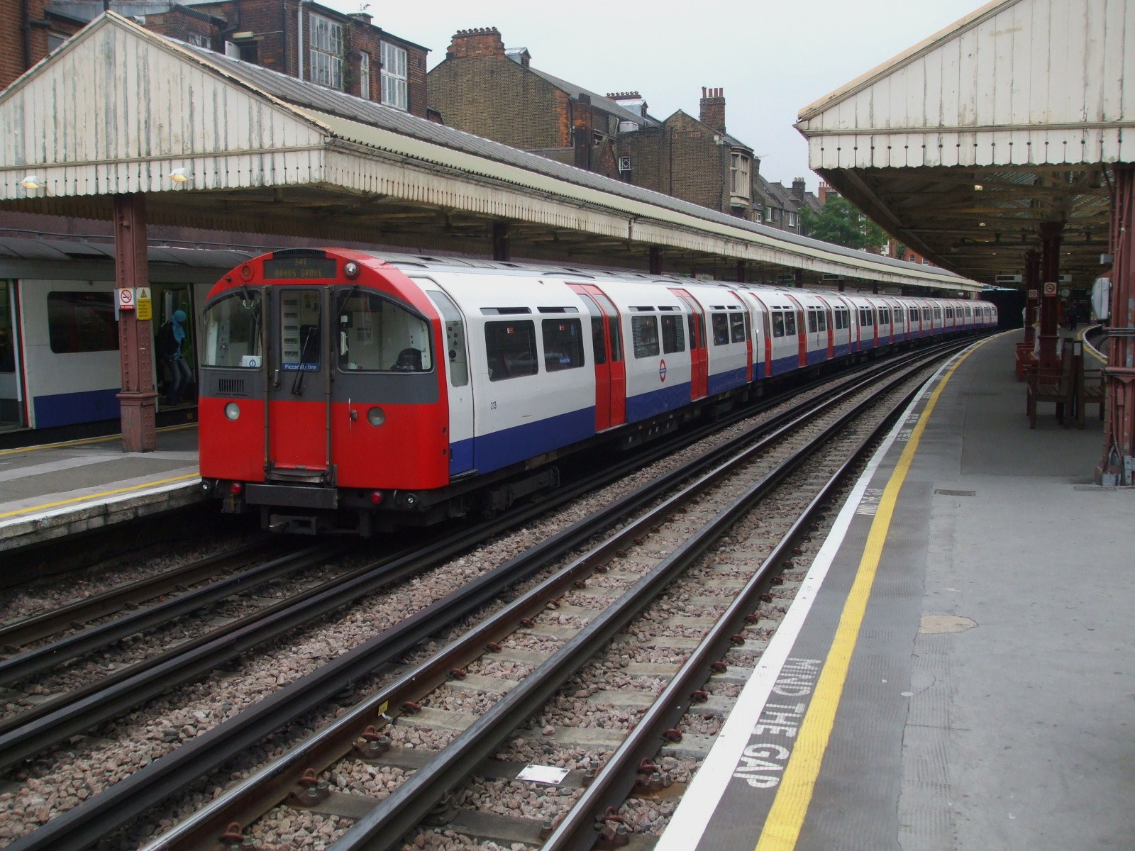 A train of 1973 stock forms an eastbound Piccadilly line service at Barons Court tube station